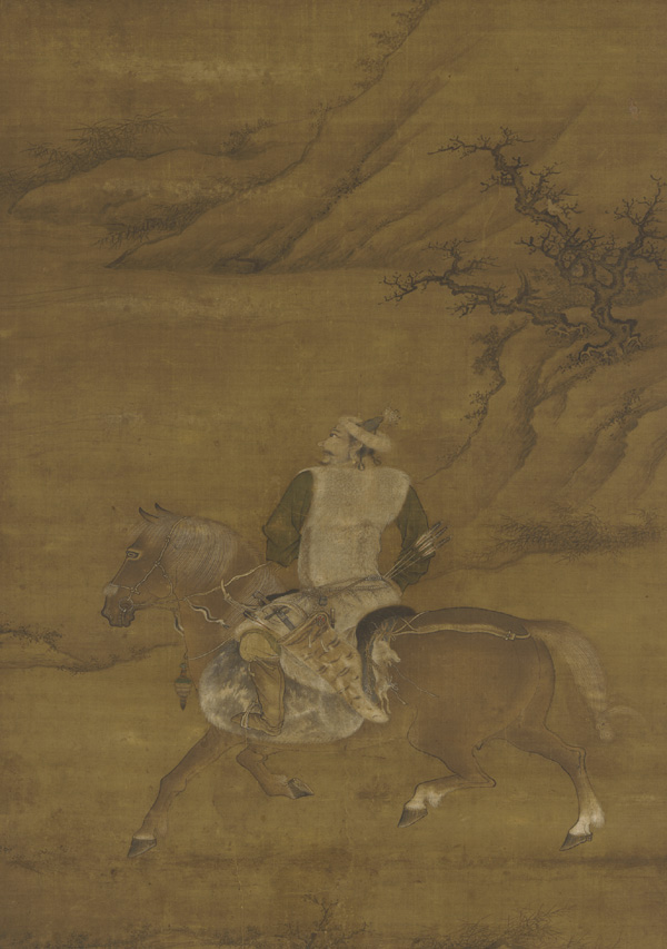 A Tartar Huntsmen on His Horse, 15th century, ink and color on silk